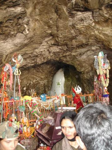 This is the image of the ice shivlingam formed in the holy cave taken by me in aug 2005 author: Rohin Koul (rohin.koul). The image is also available in my yahoo album at